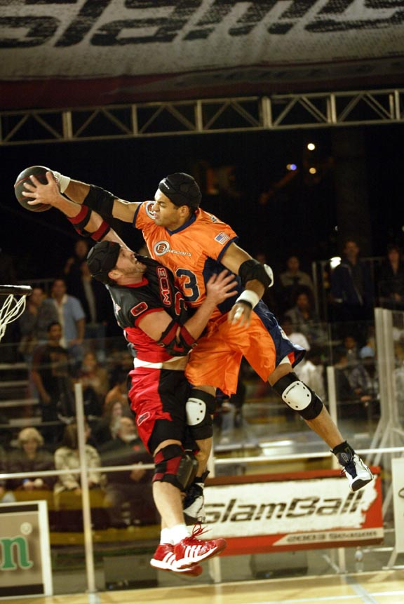 Patrick Ecclesine during Slamball 2003 in Los Angeles.